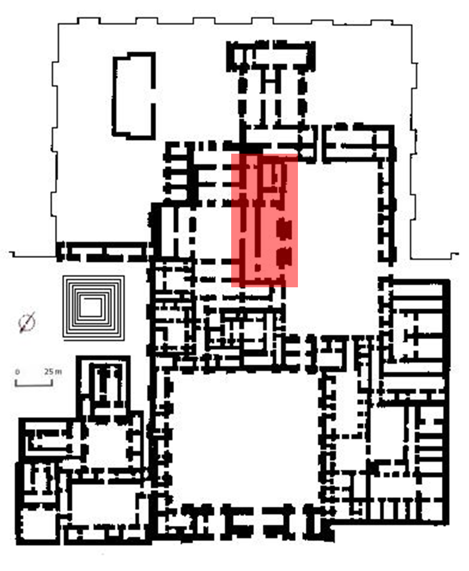 Map of the palace of Dur-Sharrukin with marked PRS